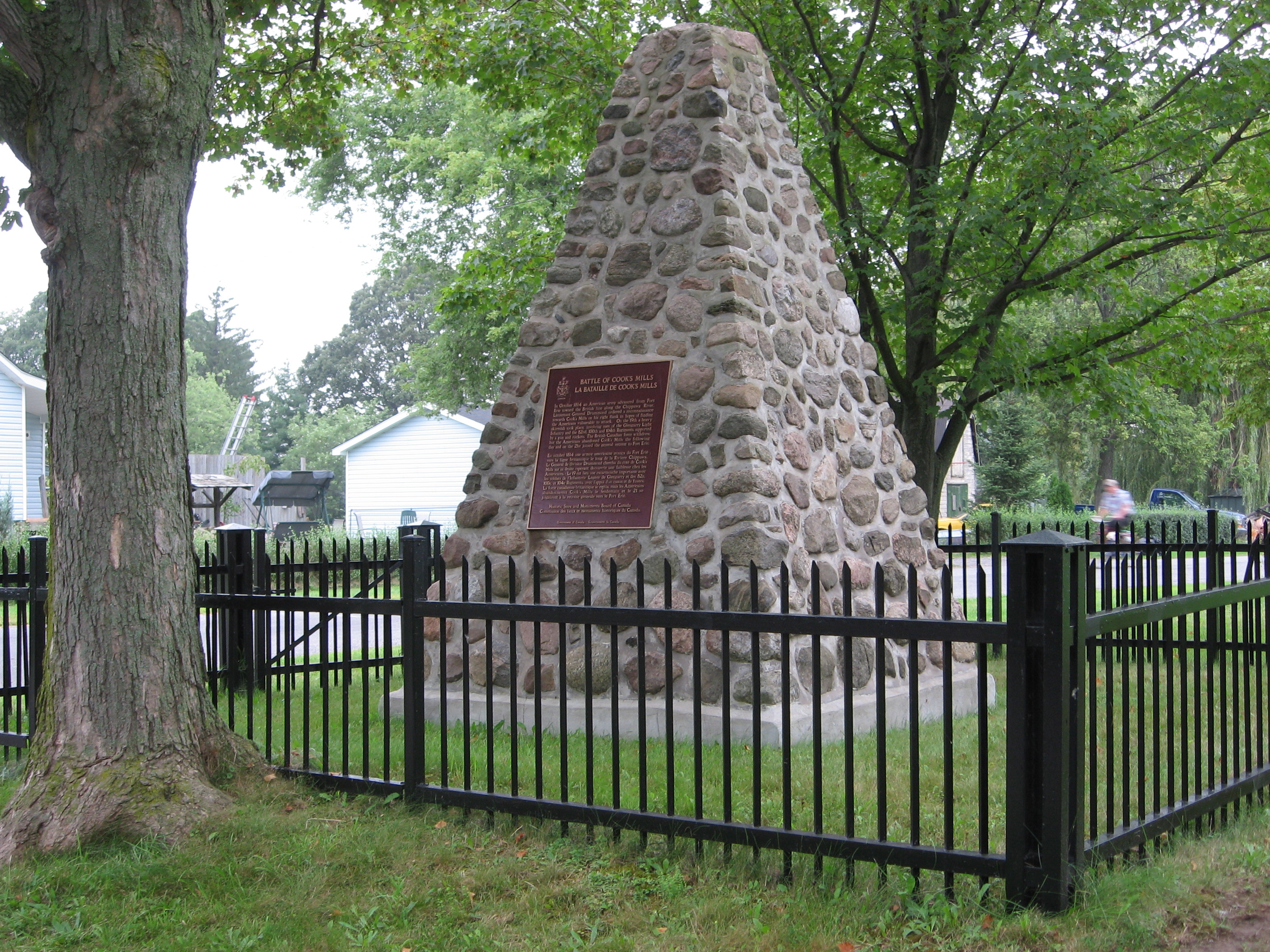 A monument commemorating the Battle of Cook's Mills. The plaque can be seen in detail on Image:Battle of Cook's Mills plaque.jpg.